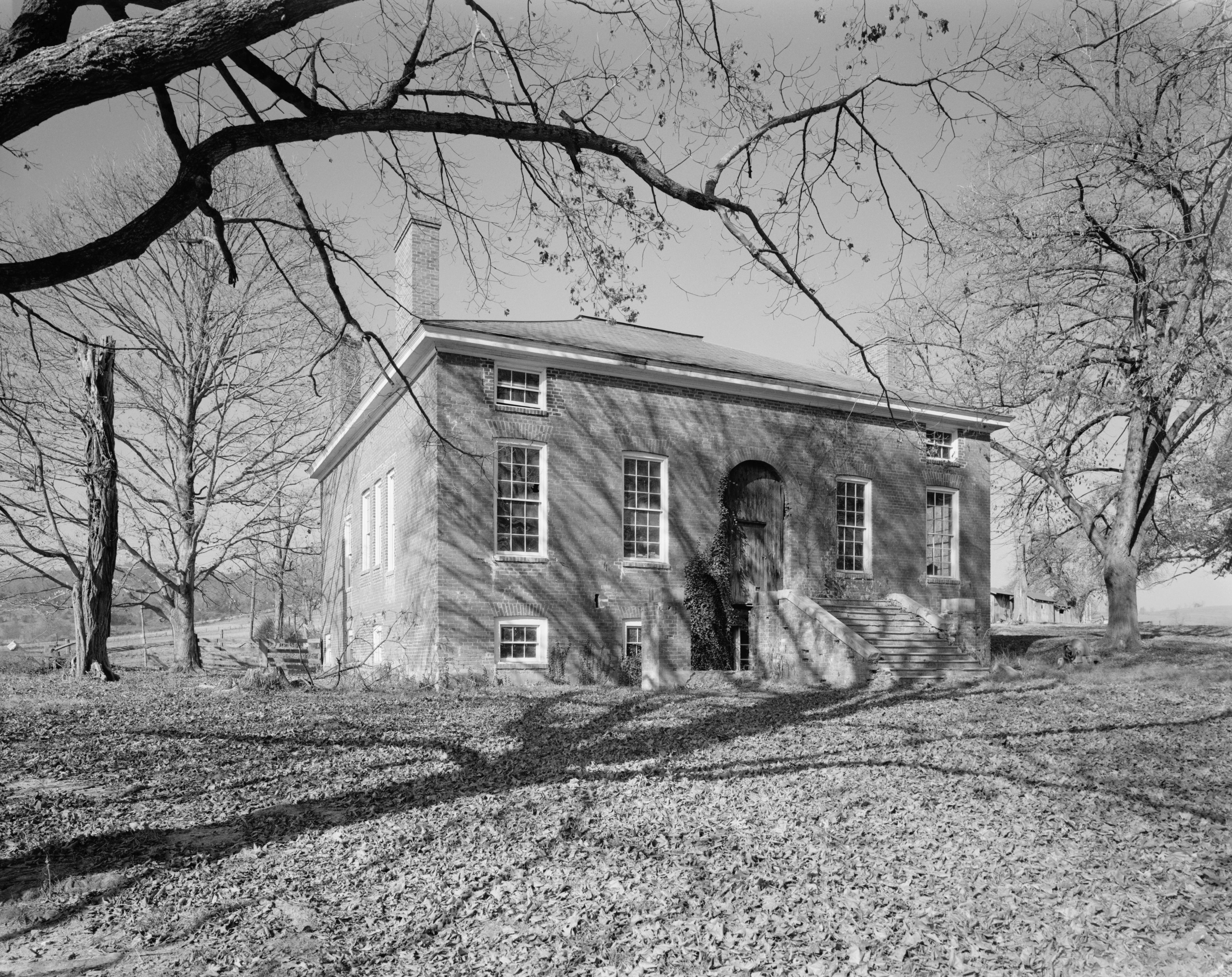 Fire-burned exterior of Lynnside, located along West Virginia Route 3 near Sweet Springs in Monroe County, West Virginia, United States. Built in 1845, this formerly Greek Revival-style house is the center of the Lynnside Historic District, a historic district that is listed on the National Register of Historic Places.